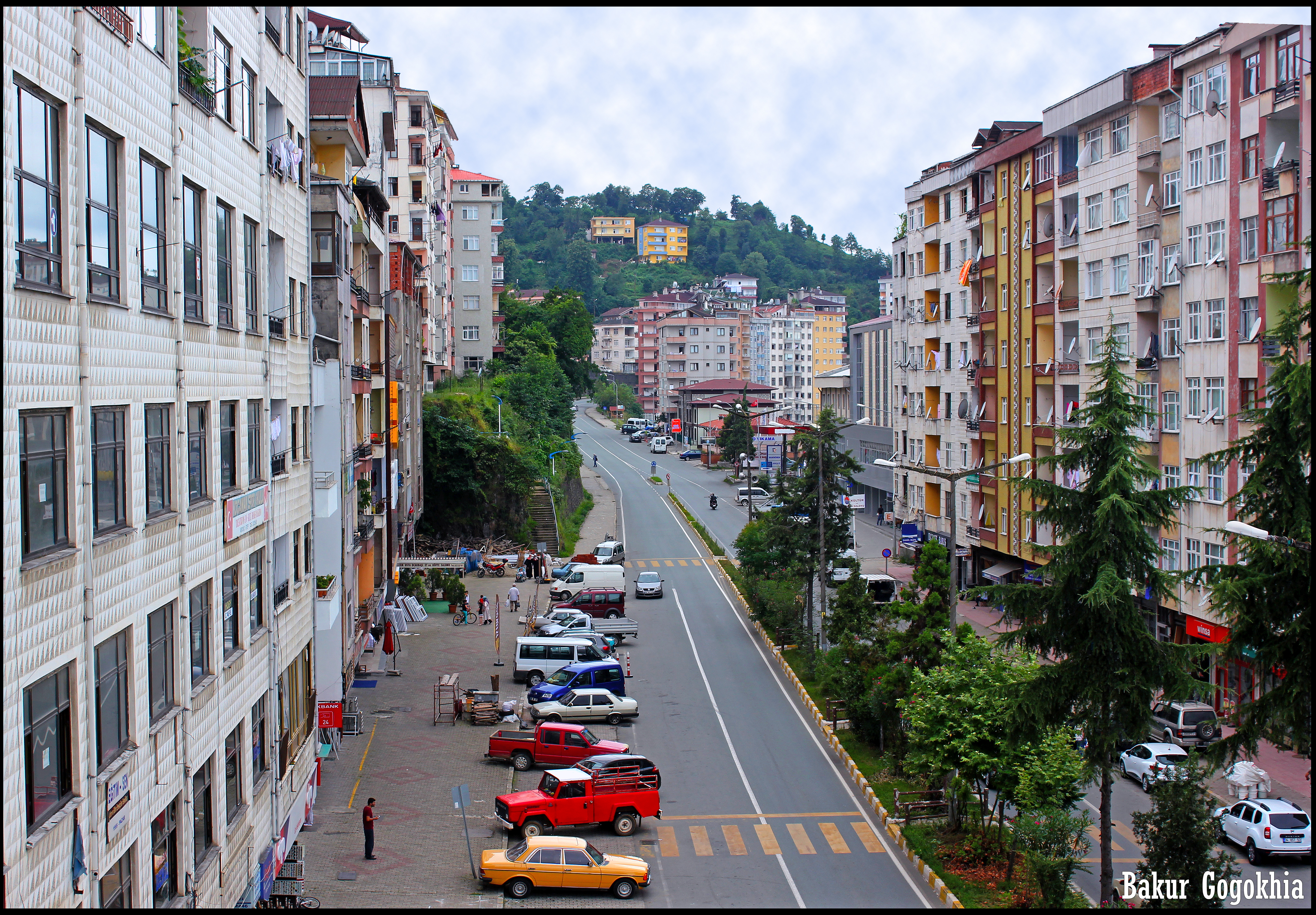 Atina-Pazar, Rize province, Lazistan